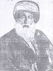 Sheikh Said Zazaki: Şêx Seid Kurdî: Şêx Seîd